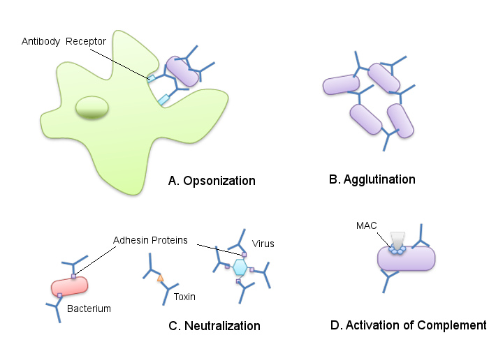 A diagram of antibody receptor binding to ligand through process of opsonization, agglutination, neutralization, and activation of complement.